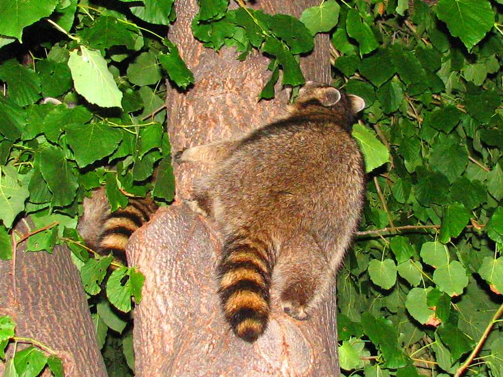 Two Northern Raccoons (Procyon lotor), taking refuge in tree, Ottawa, Ontario